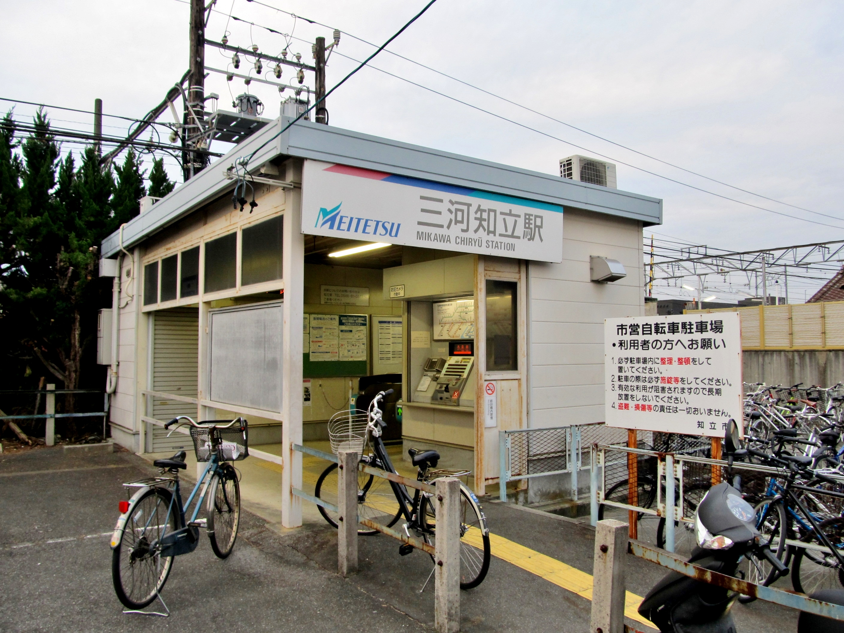 Nagoya Railroad Mikawa Line Mikawa Chiryū Station Building